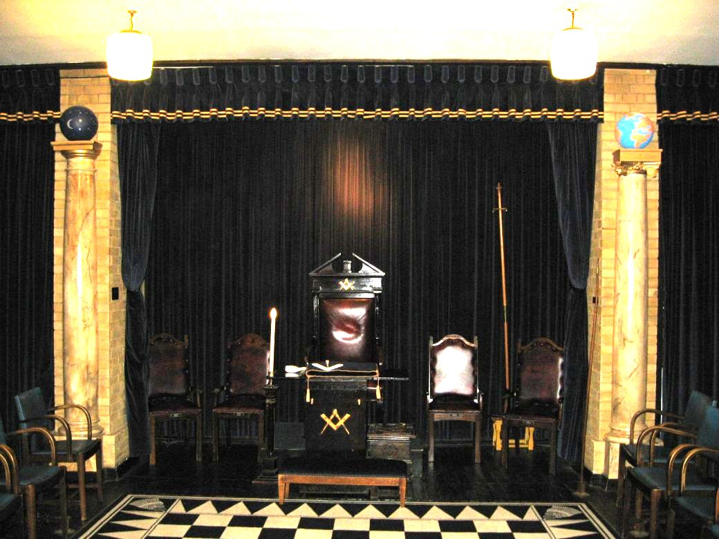 Photograph taken by me at The Cloisters Letchworth October 30 2007